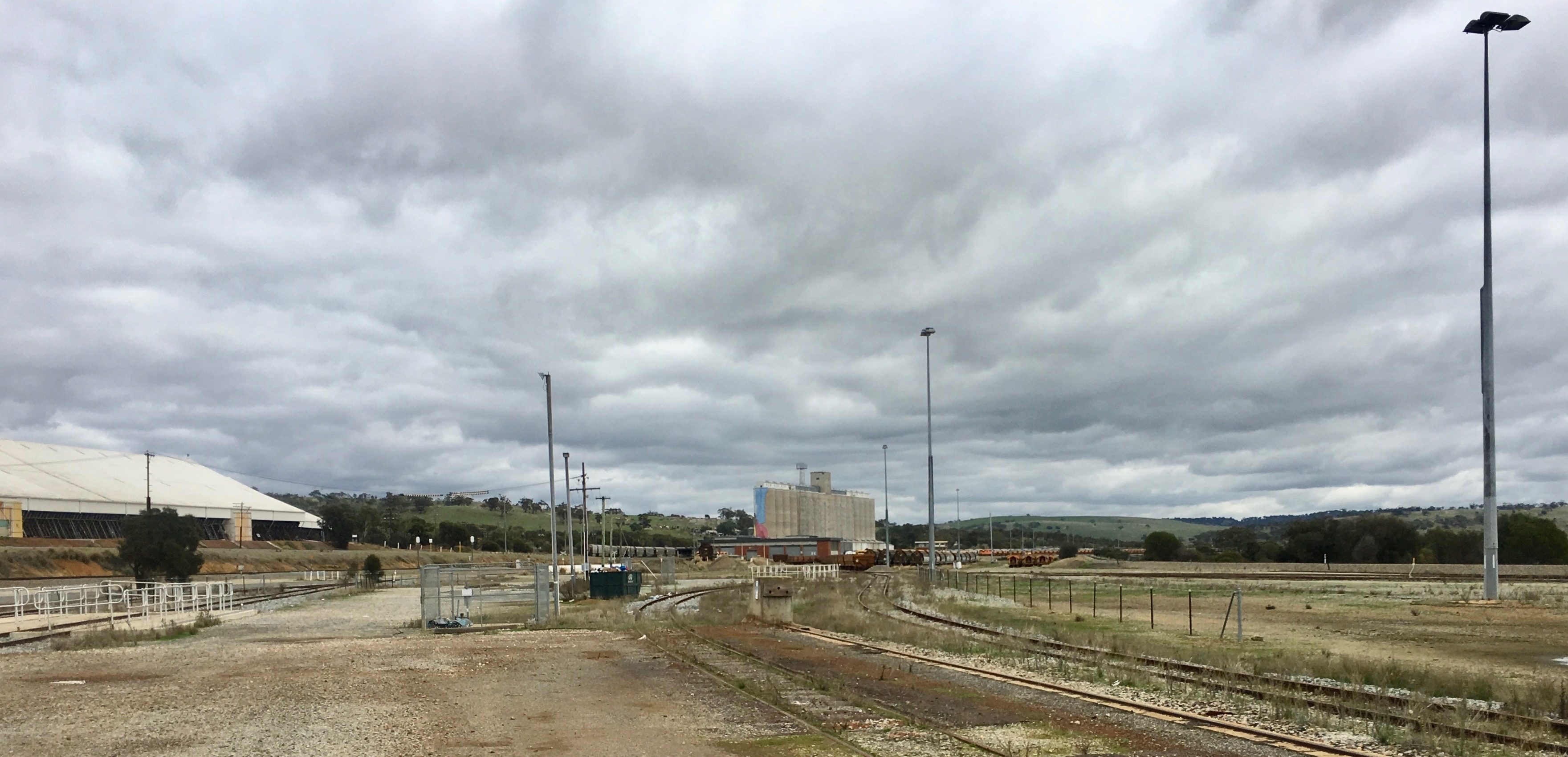 Avon Yard on a cloudy day from the east.